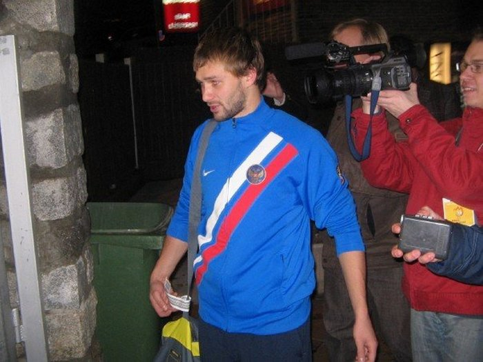 Dmitry Sychev after Andorra - Russia soccer match